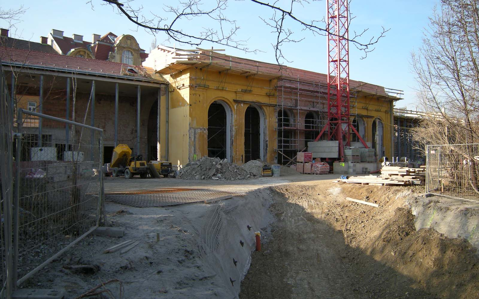 Building site of the restoration of 'Old Schönbrunn palm house'. Plans are to re-open the building by 2009.